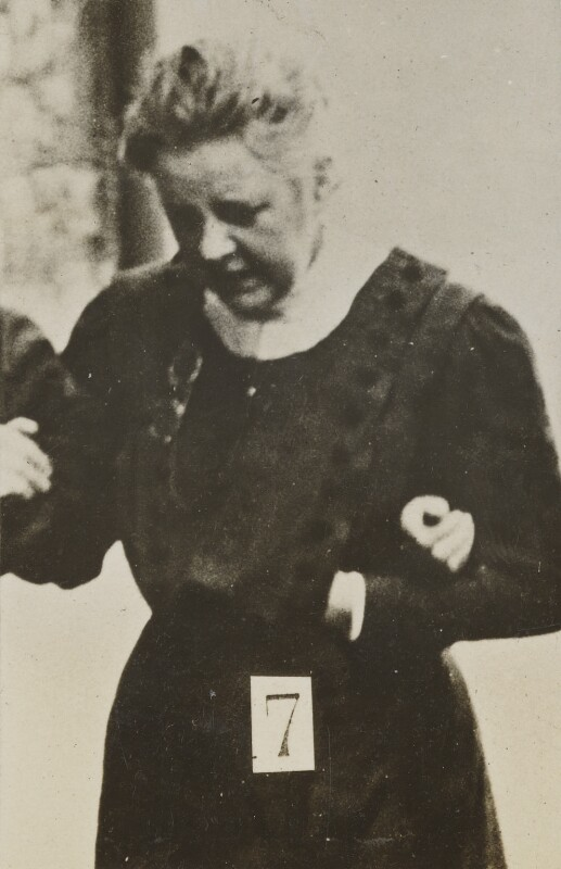 An image created by the United Kingdom's Criminal Record Office and then made available at the UKs National Portrait Gallery. These date from c.1914 when the suffragettes had an arson campaign before WW1